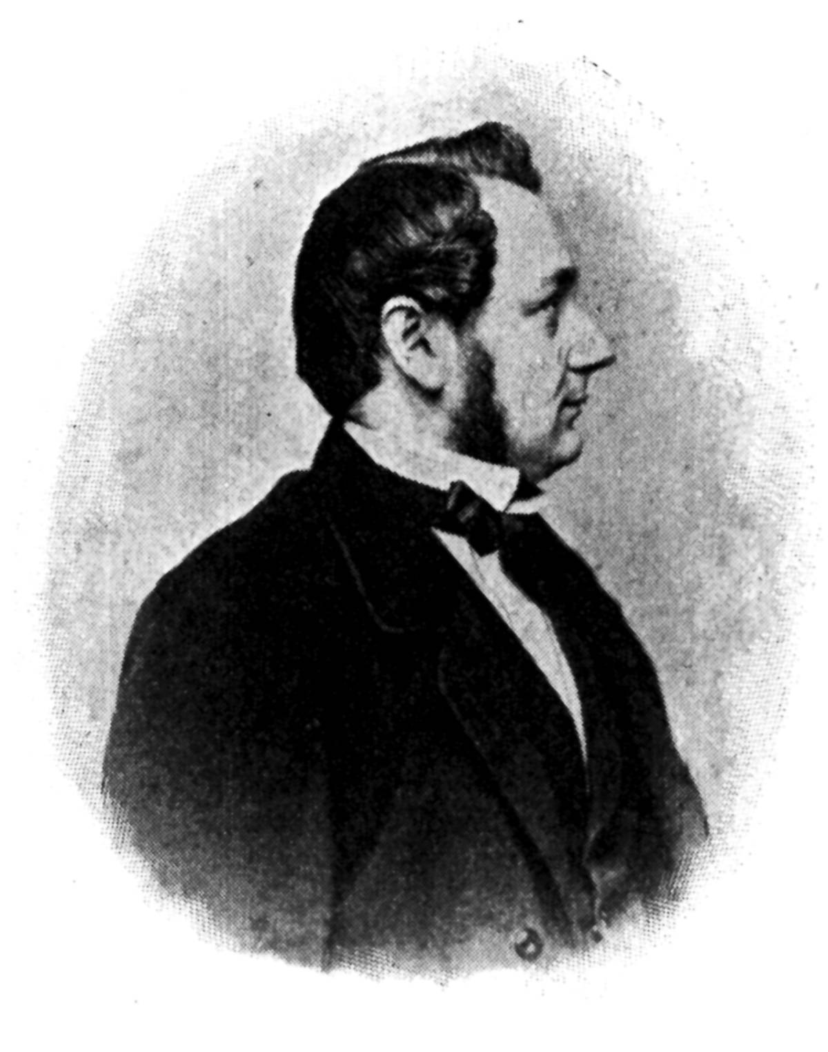 Hubert von Luschka